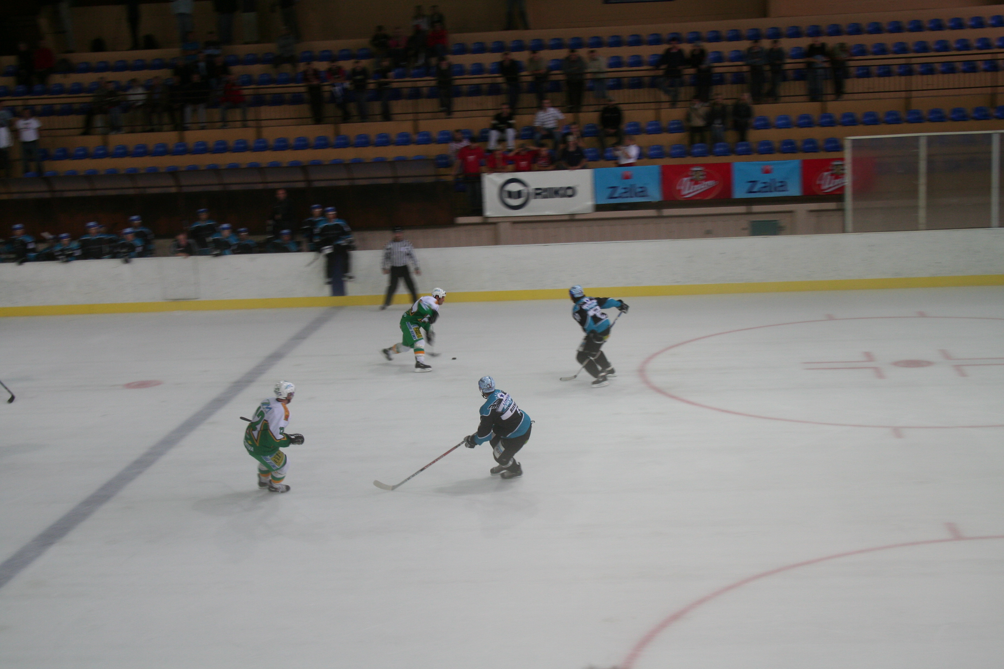 HDD Olimpija - EHC Linz, friendly match in 2007